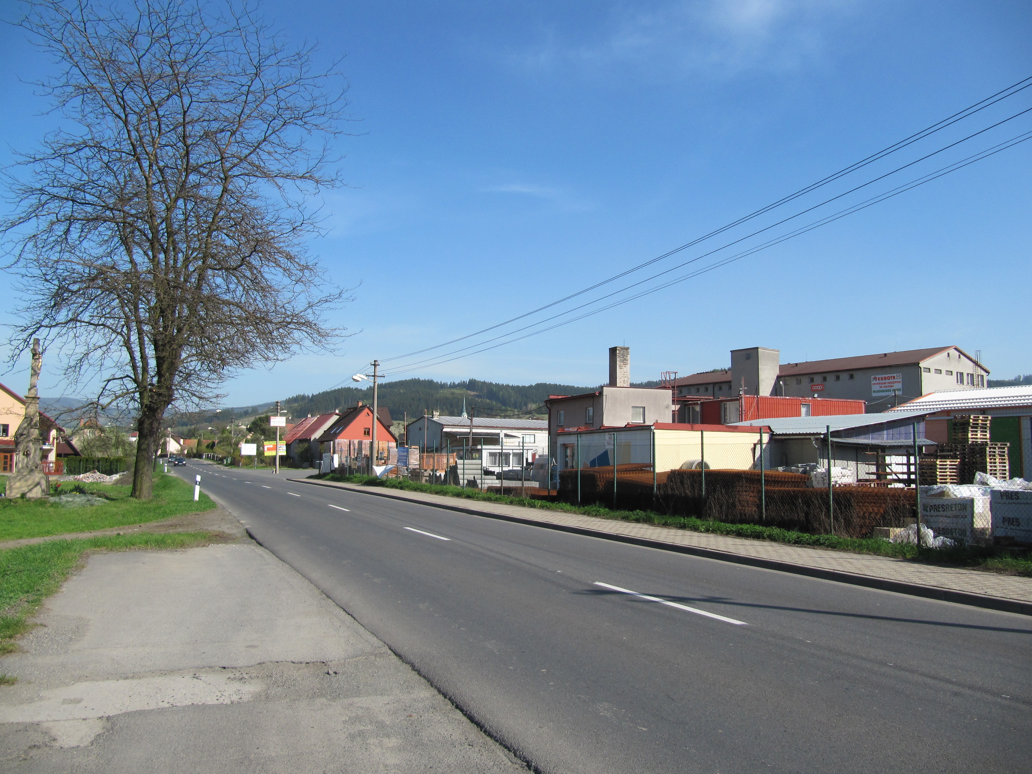 Hovězí, Vsetín District, Czech Republic.